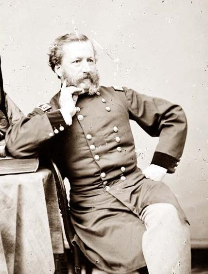 Portrait of General Joseph K. Barnes (1864).